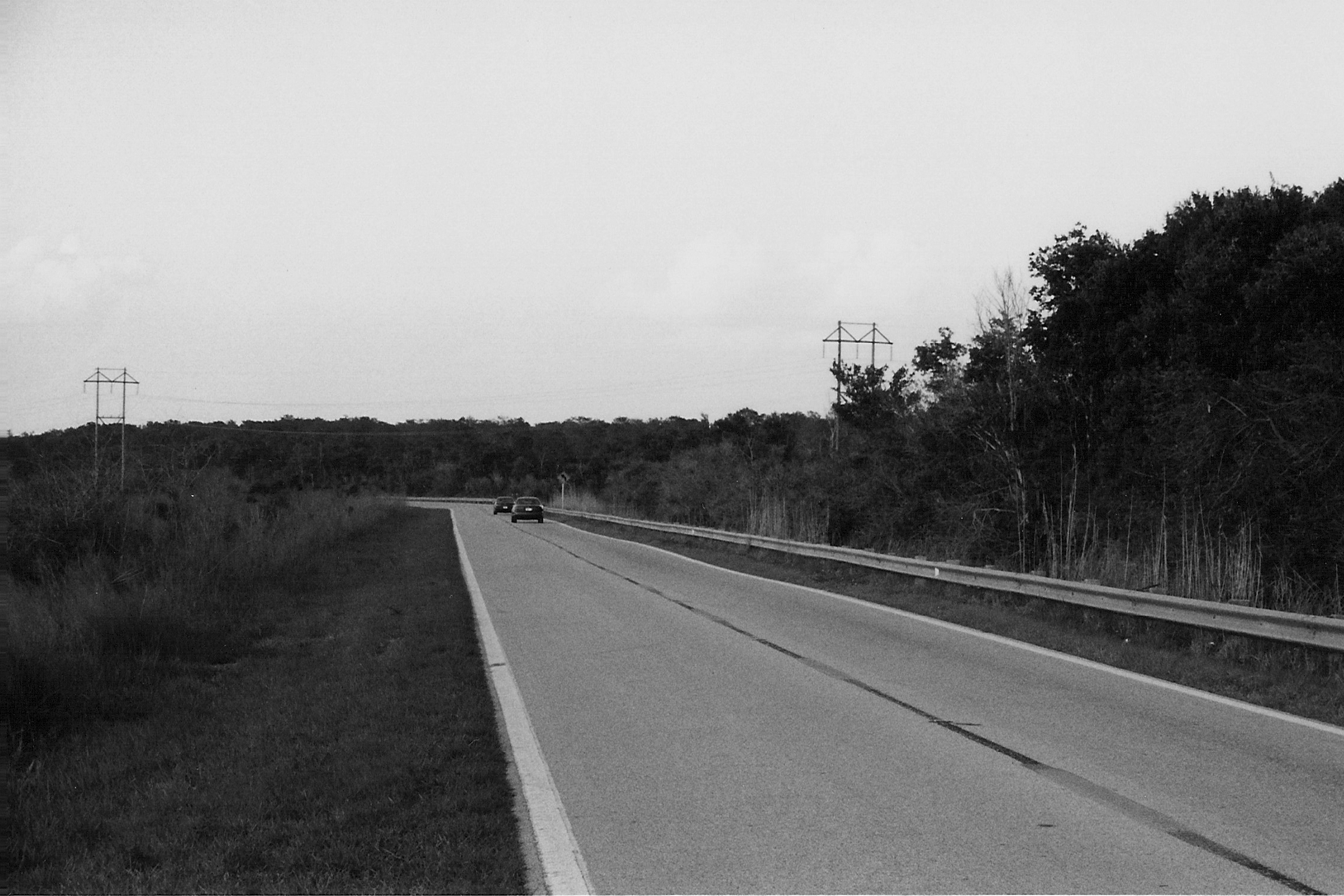 The first curve after leaving Tamiami Trail to go north on Florida State Road 29. It just seems like such a lonely curve... Photo taken in March 1997, with a Canon EOS Rebel, Kodak Tri-X film, and the standard 24-70mm kit lens.